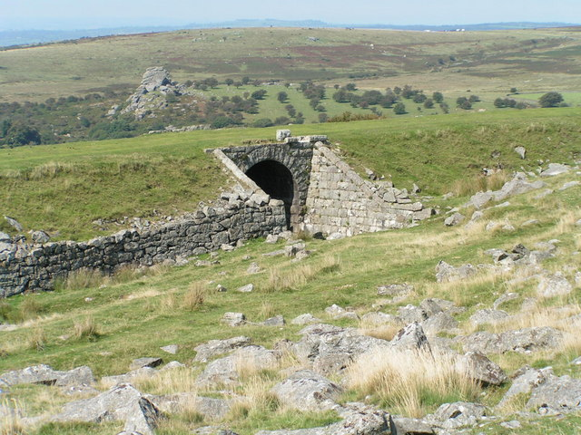 Disused Princetown Railway Bridge, King's Tor. A sturdy bridge carrying the Plymouth and Dartmoor Railway as it approached Little King Tor. A couple of Dartmoor ponies are taking shelter from the wind in its archway. The line, which opened in 1823, was constructed as a tramroad to carry stone from Foggintor Quarry off the moor. It was later adapted in 1882 as the GWR branch line from Yelverton to Princetown. The line finally closed in March 1956 due to dwindling use (prior to the Beeching cuts), and the track removed a year later.